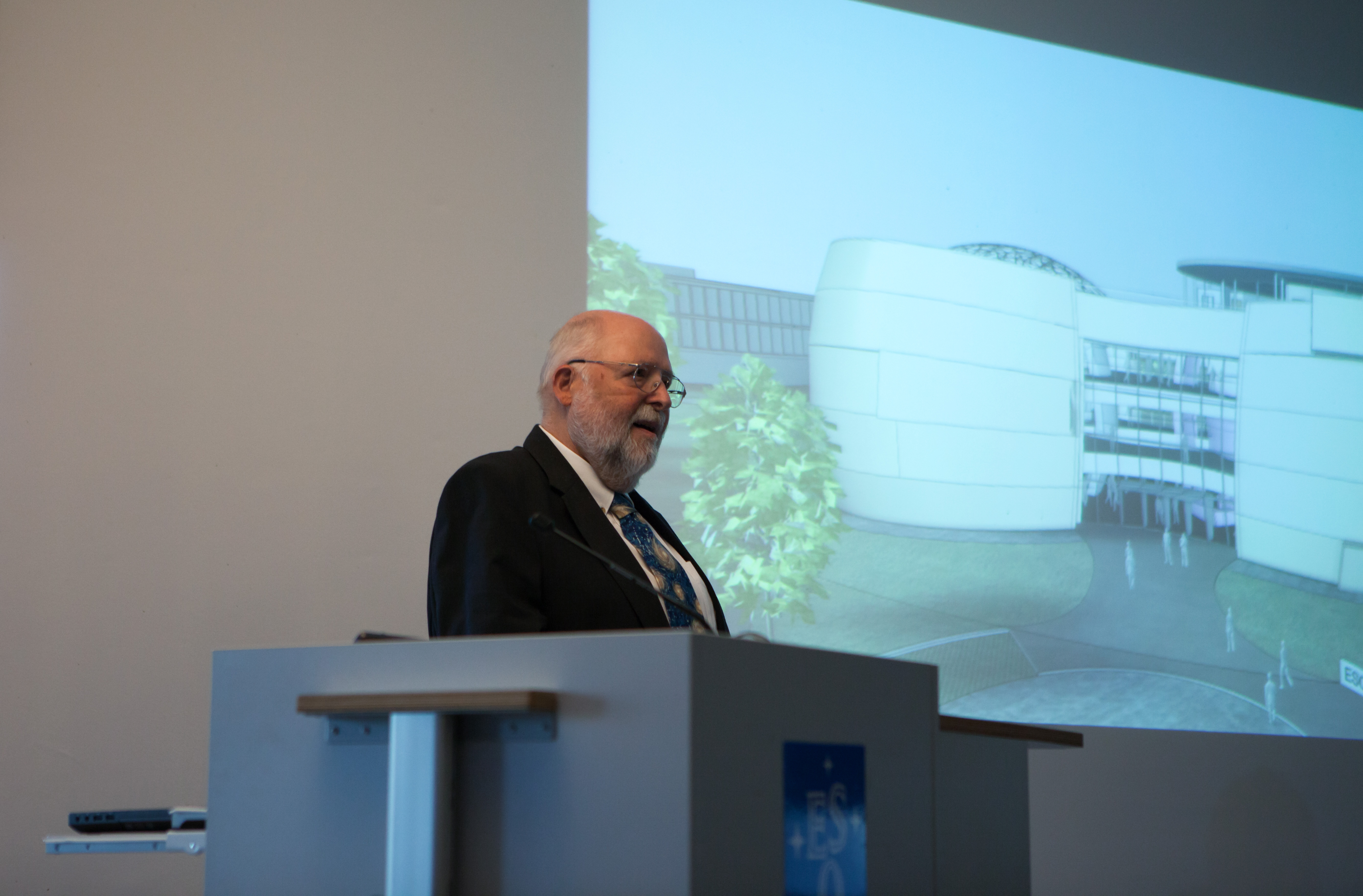 ESO has received a donation of a planetarium and visitor centre at the site of its Headquarters in Garching bei München, Germany. The centre will be a magnificent showcase of astronomy for the public. It will be possible thanks to Klaus Tschira (pictured): the foundation he created in 1995 offered to fully fund the construction. Credit: ESO